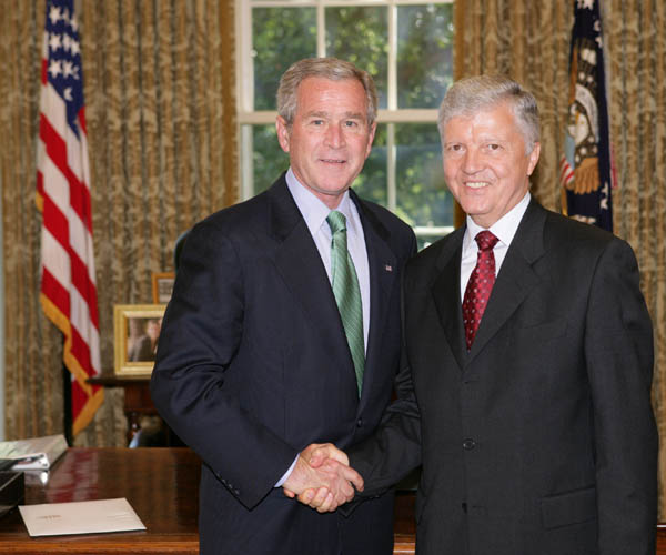 President George W. Bush meets with Ambassador Ferenc Somogyi of the Republic of Hungary, during the credentials ceremony for newly appointed ambassadors Tuesday, Sept. 18, 2007, in the Oval Office. White House photo by Eric Draper.